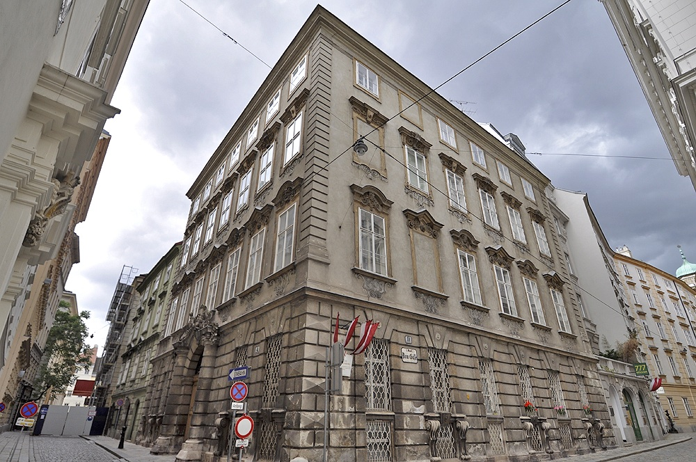 Fuerstenberg Palace in Vienna